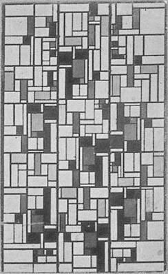 Theo van Doesburg. Design for Leaded Glass Composition V. 1918. From Theo van Doesburg. Drie voordrachten over de nieuwe beeldende kunst. Amsterdam: Maatschappij voor goede en goedkoope lectuur, 1919: p. 104.